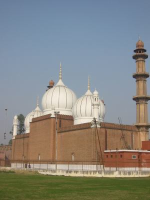 Aligarh University's main mosque